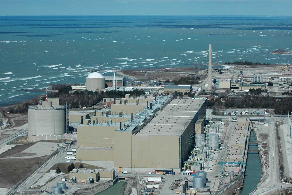 Aerial photo of the Bruce Nuclear Generating Station near Kincardine Ontario. Photo by Chuck Szmurlo taken March 15, 2006 with a Nikon D70 and a Nikon 70-200 f2.8 lens.